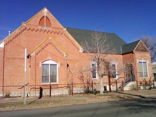 Scum of the Earth Church building, 935 W 11th Ave, Denver, Colorado.